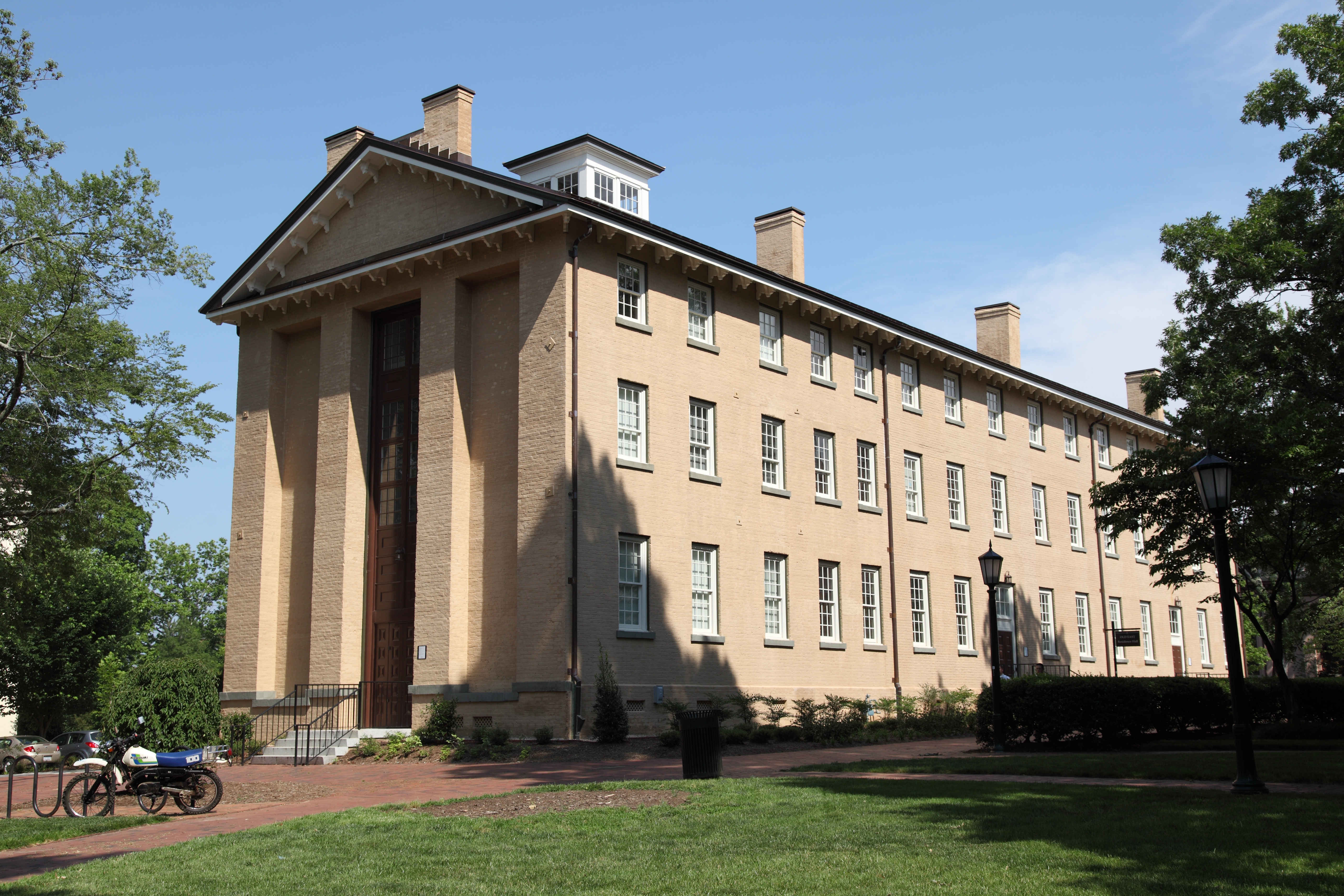 The Old East dormitory of UNC was built in 1793. It is the first state university building in the United States.